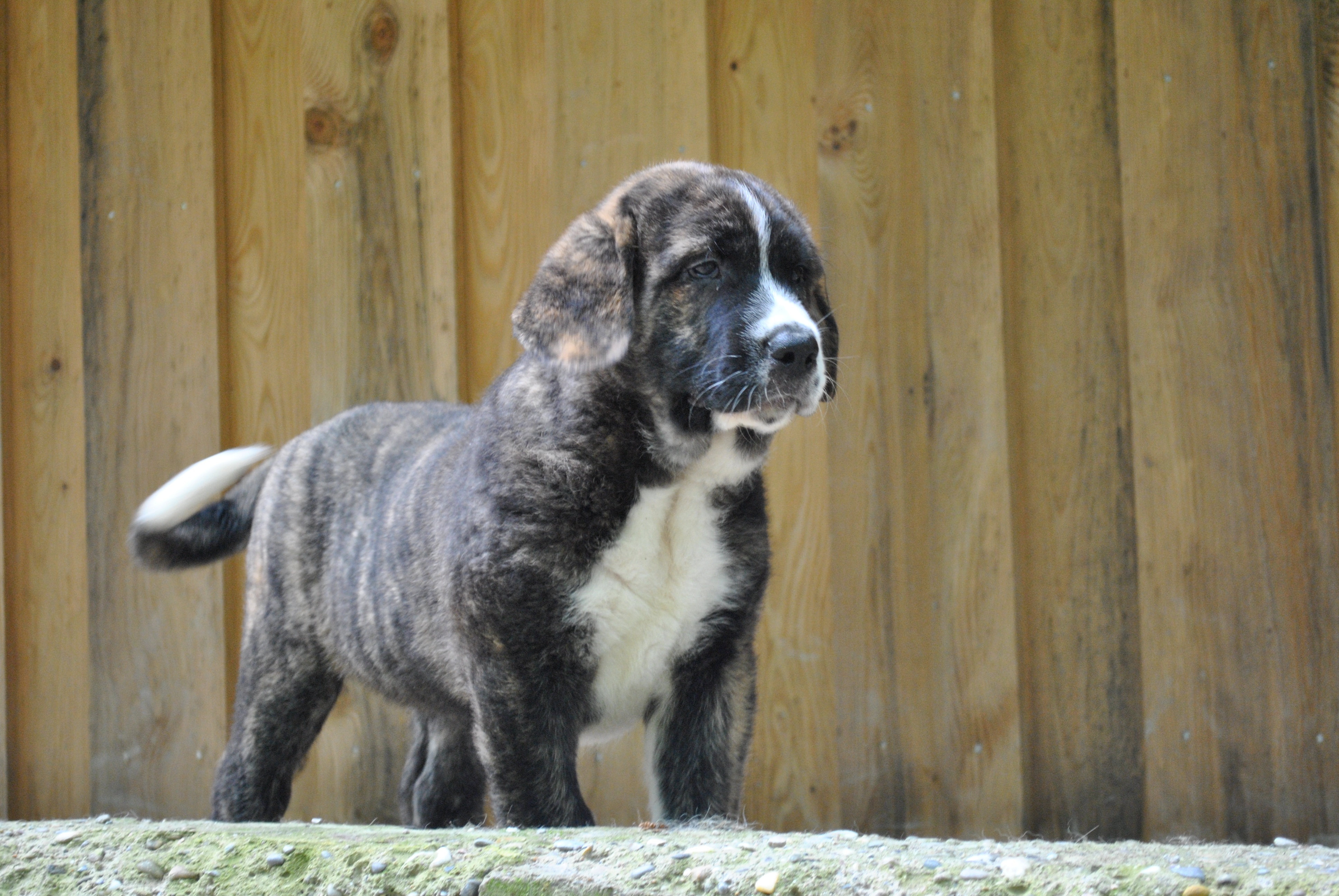 Puppy (7 week) spanish mastiff